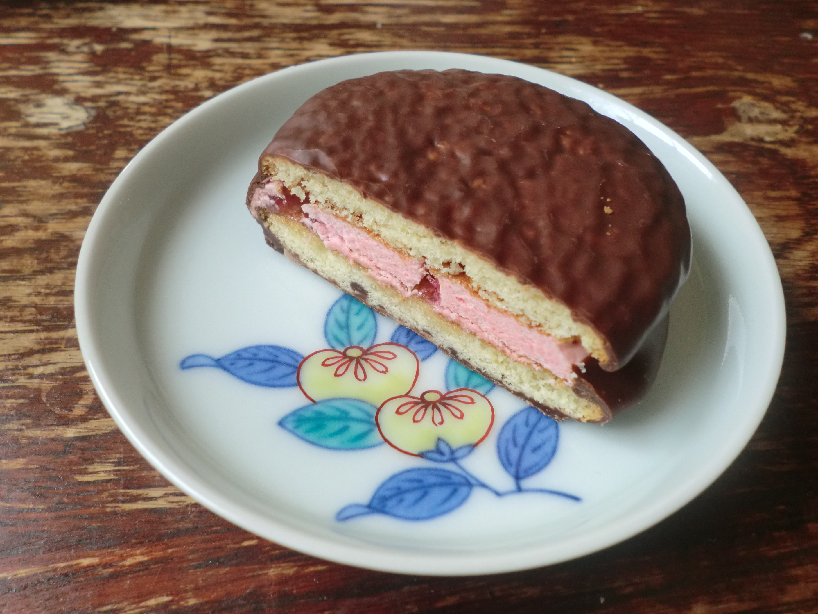 "Choco Pie Amaou Ichigo"(strawberry choco pie) sold only in Kyushu area, by LOTTE Co., Ltd.